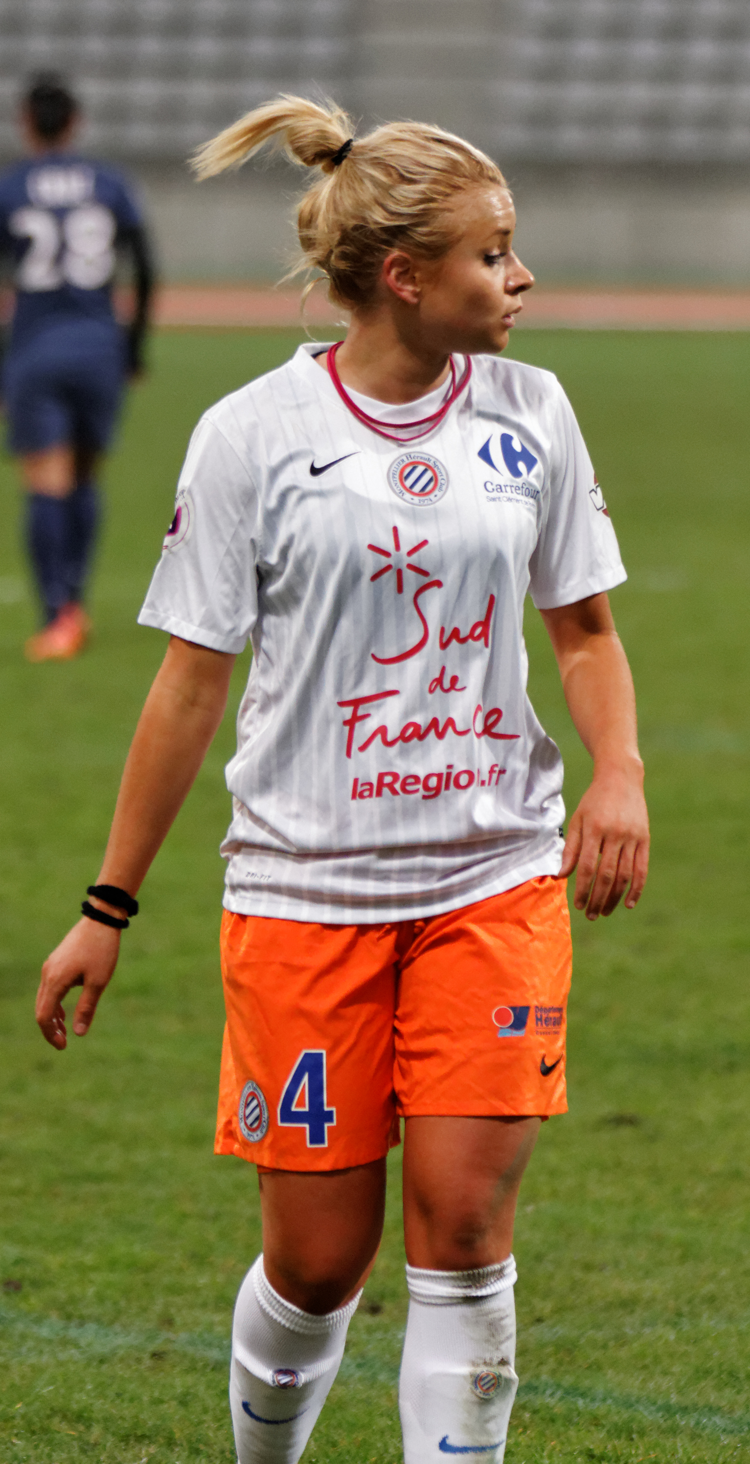 PSG-Montpellier, January 13th, 2013.